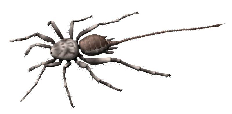 Restoration of Chimerarachne yingi